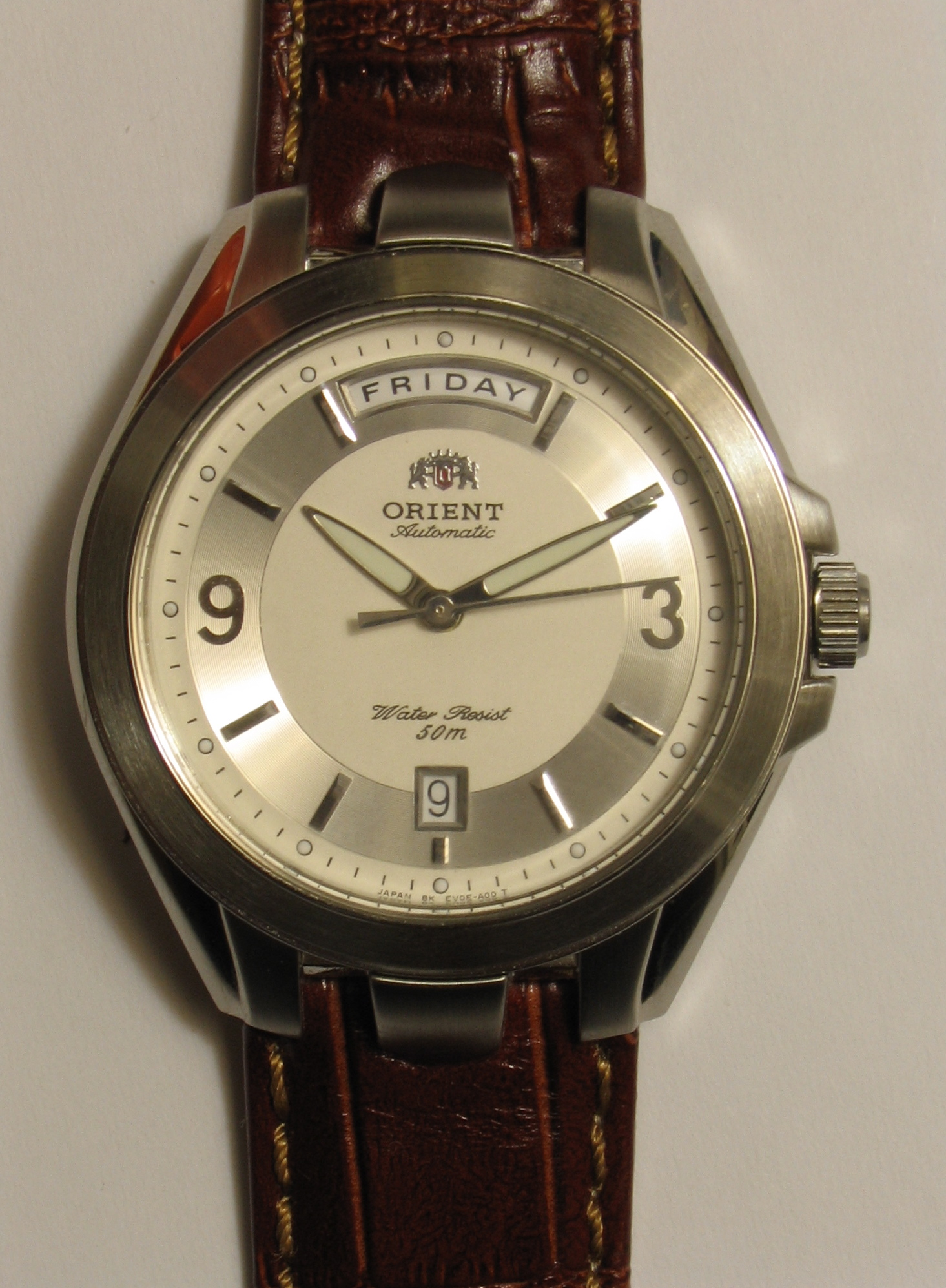 I, Adam Norman, took this photo of my watch.